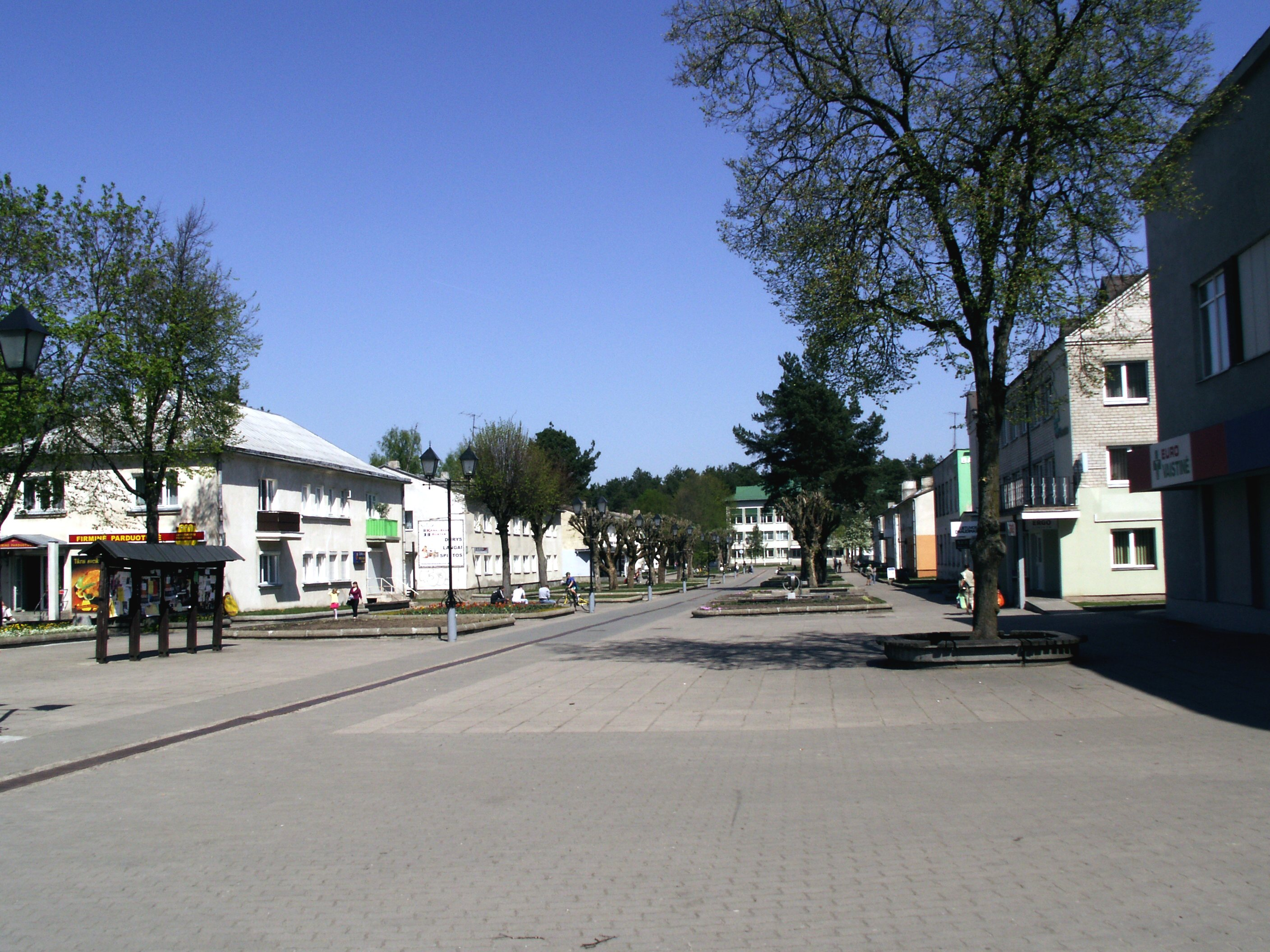 Varėna, Lithuania